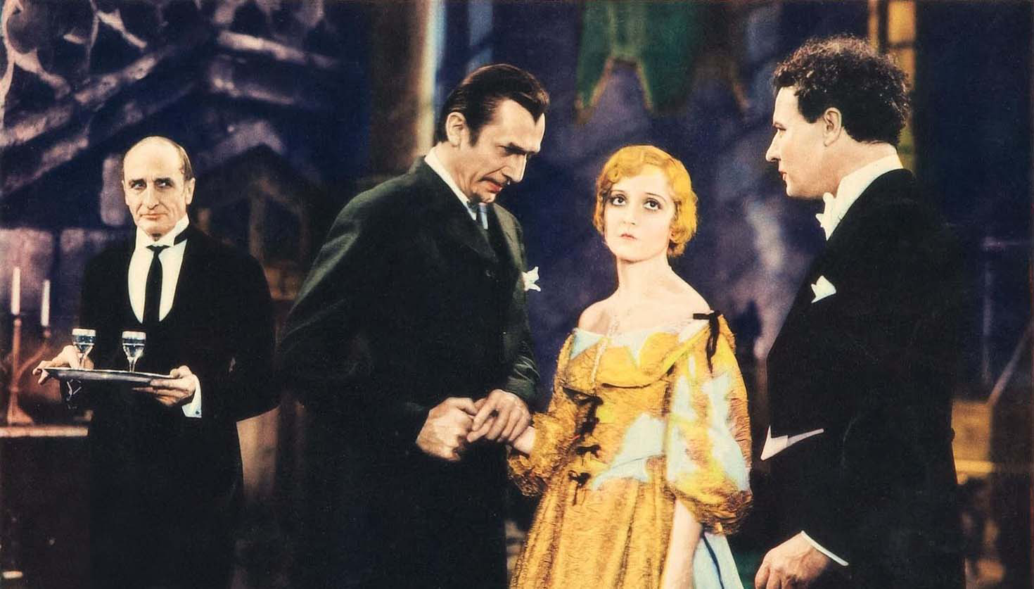 Cropped and edited lobby card for the pre-code horror movie, White Zombie (United Artists, 1932). Image is assumed to be in the public domain as no copyright notice is in evidence.